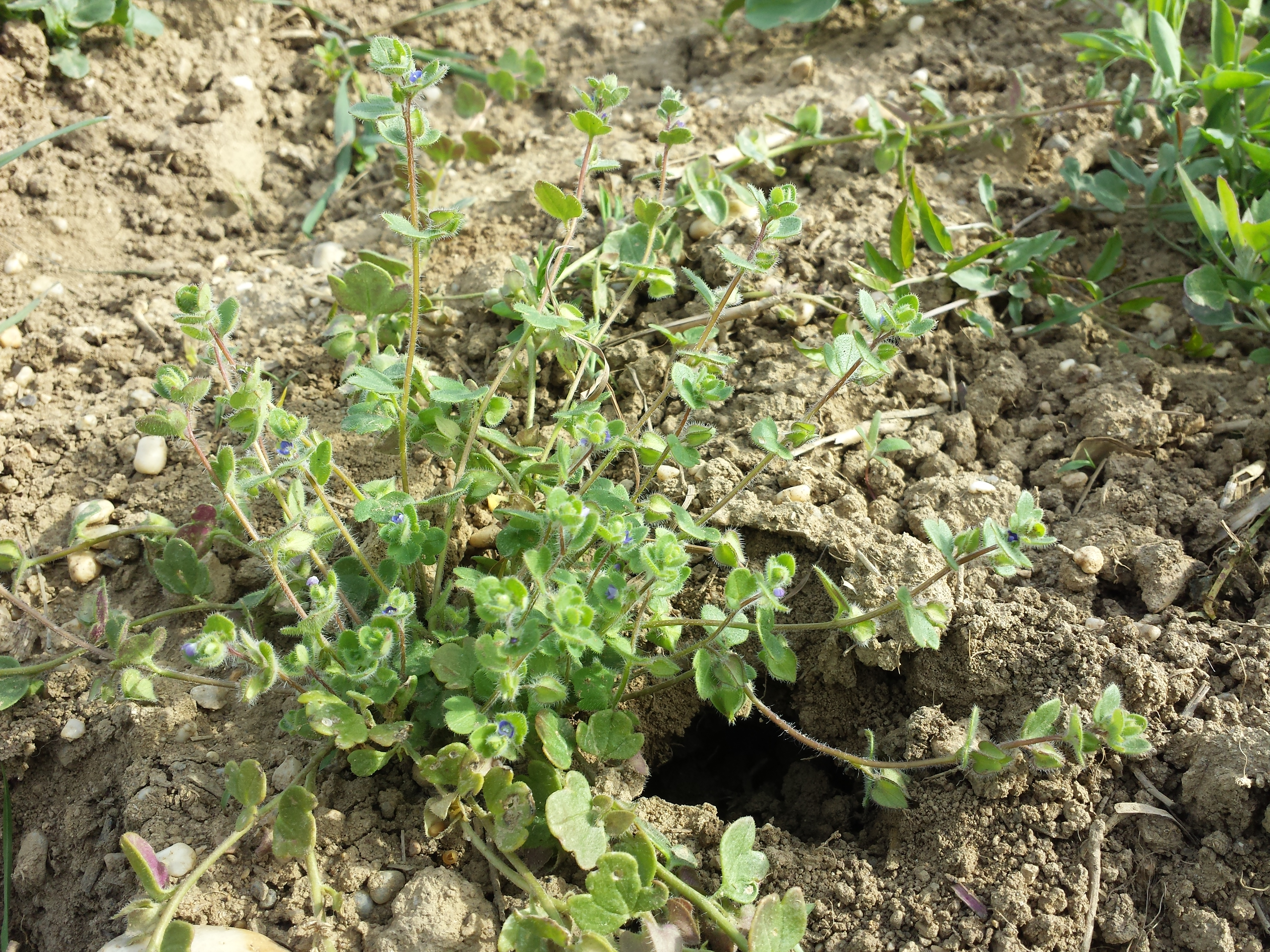 Habitus Taxonym: Veronica triloba ss Fischer et al. EfÖLS 2008 ISBN 978-3-85474-187-9 Location: Steinbruchberg next to Schletz, district Mistelbach, Lower Austria - ca. 330 m a.s.l. Habitat: field